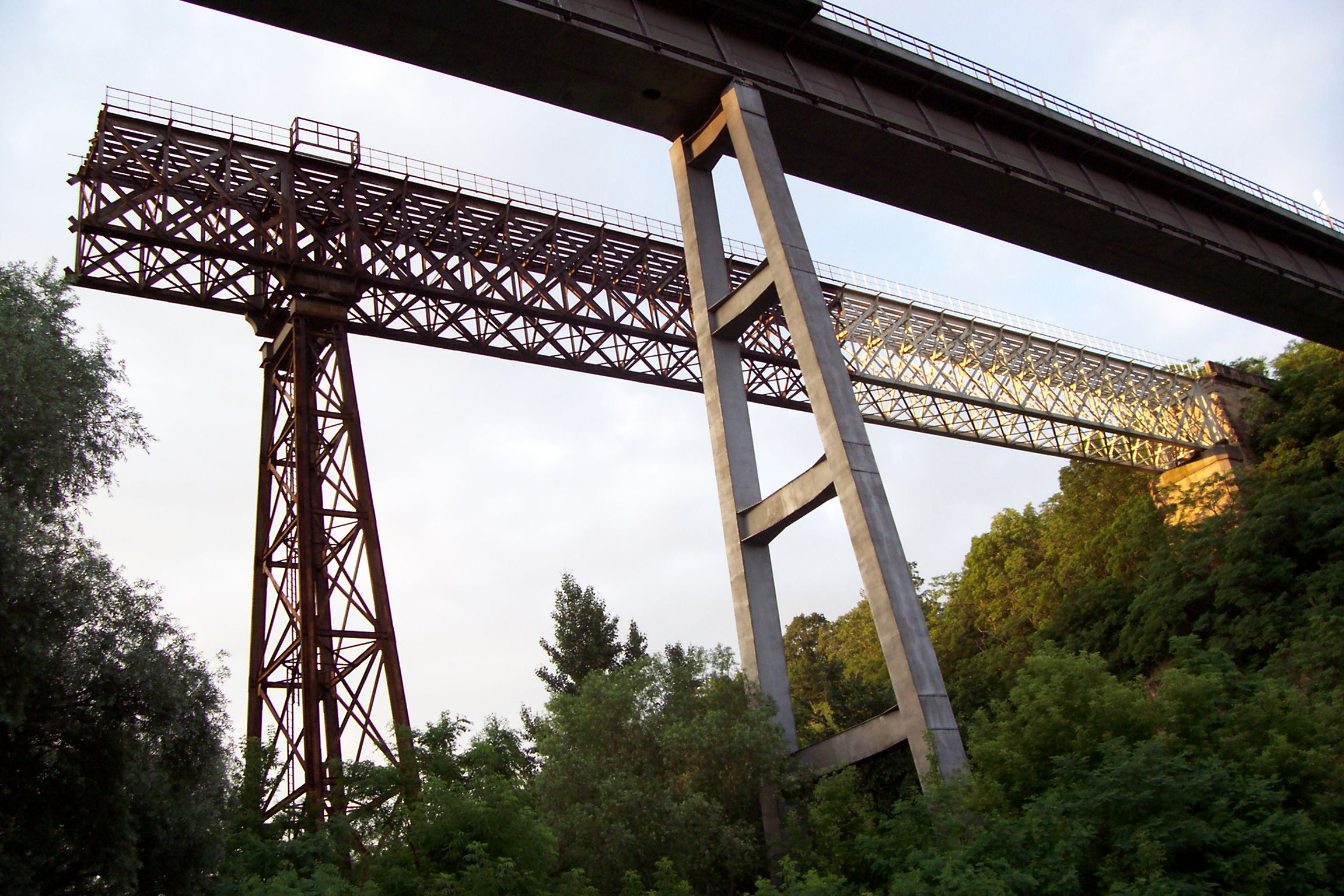 Last remains of dismantled Ivančice viaduct, Czech Republic.